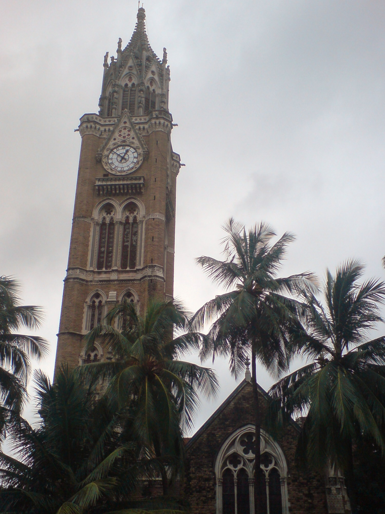 University of Mumbai, Fort Campus